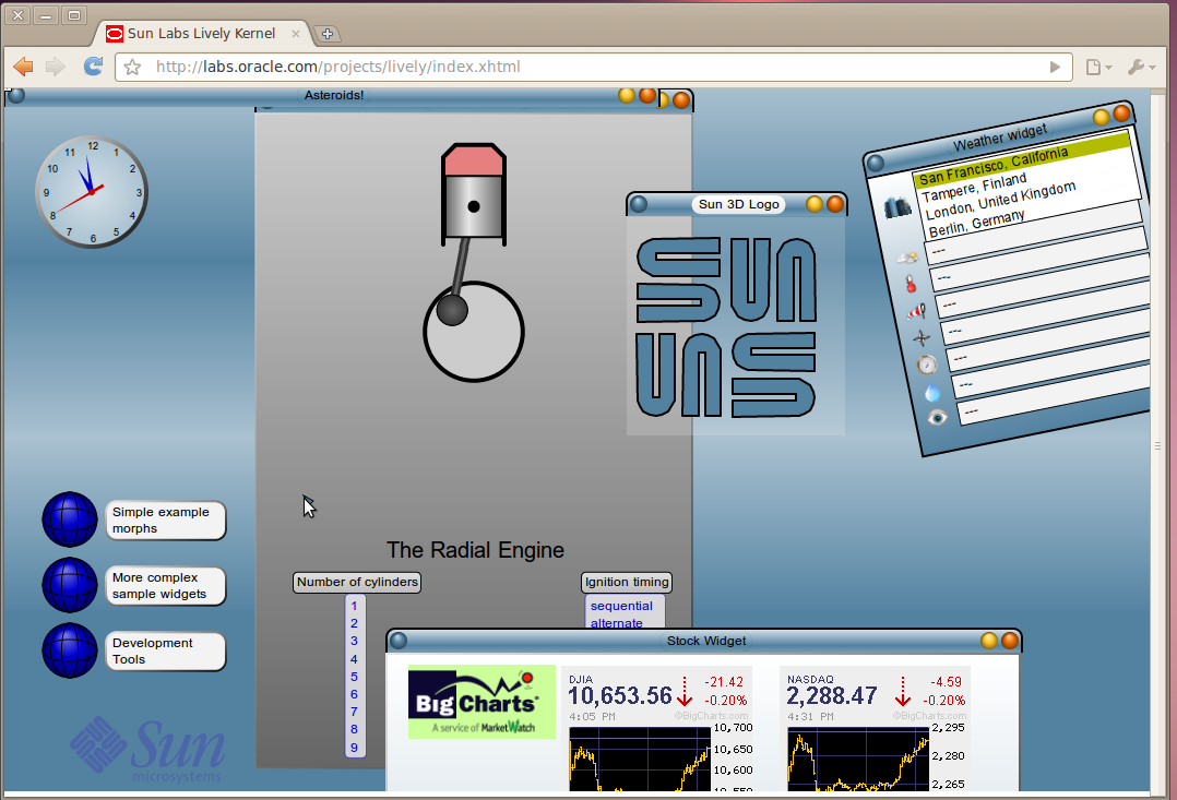 Chromium5.0.375.99 showing lively kernel using gtk+ theme